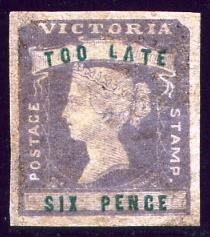 Late Fee stamp of Victoria (Australia)